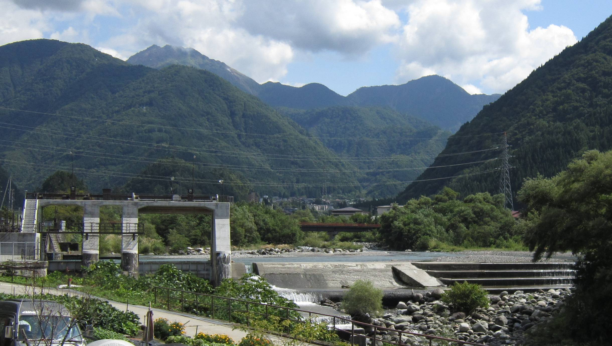 Imami Dam.